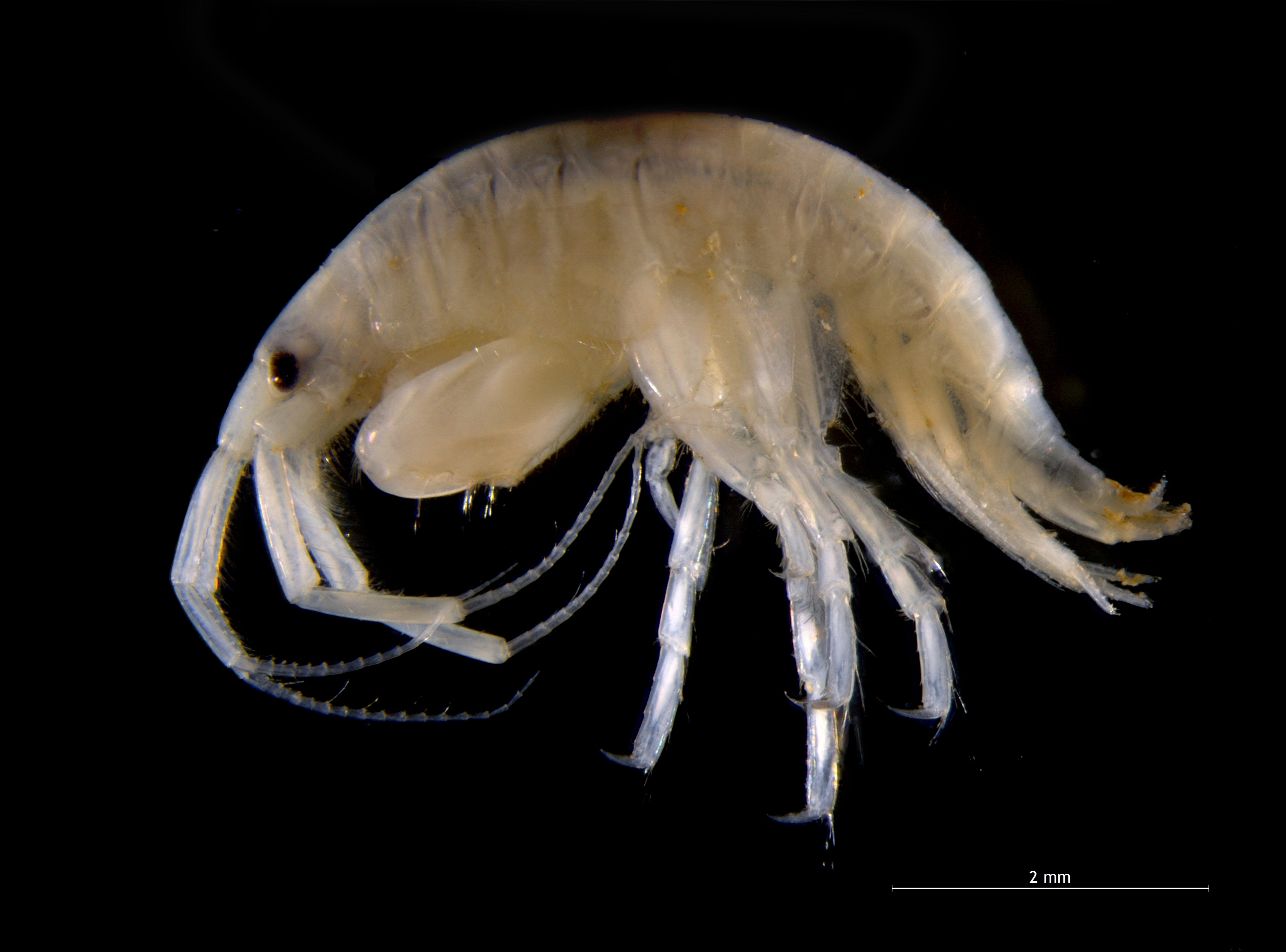 Benthic amphipod, taken with Leica DFC 490 camera mounted on a Leica M205C binocular microscope. Gnathopod 2 is large with a characteristic propodus (detail of the second gnathopod). Collected in 2012 on the Bligh Bank in the Belgian part of the North Sea. Geo-location not applicable as the picture was taken in the lab.Length = ~6 mmFocus stacking of 56 pictures.